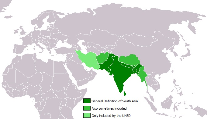 South Asia, featuring, various extended definitions